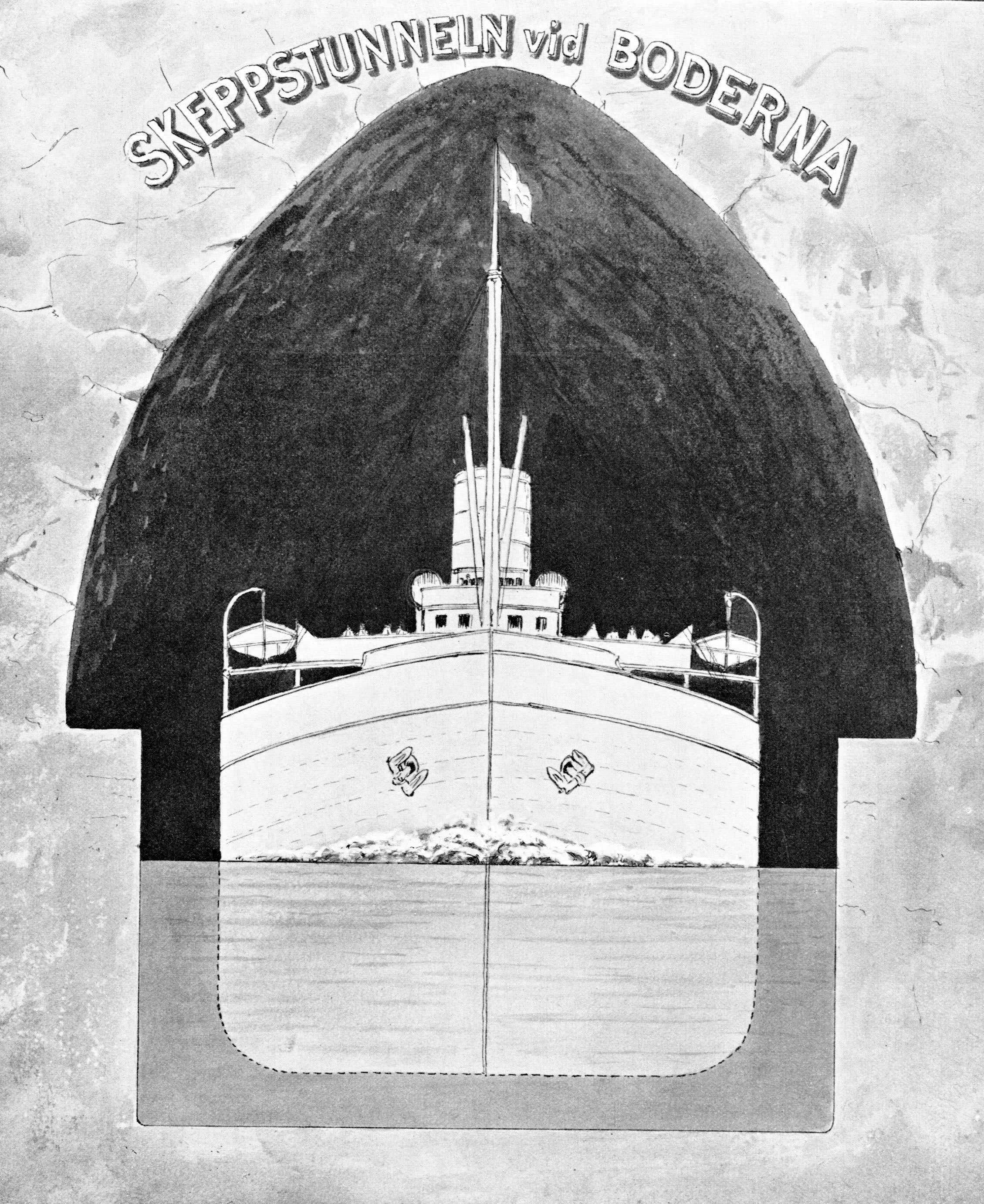 The planned ship tunnel at Boderna, Tiveden, Sweden.